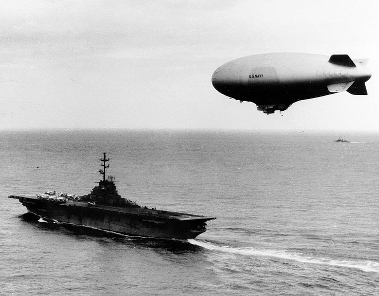 The U.S. Navy aircraft carrier USS Leyte (CVS-32) operating with a ZPG-2 blimp and an unidentified destroyer of Destroyer Squadron 20, during the anti-submarine exercise "ASWEX 1-58" in February 1958.